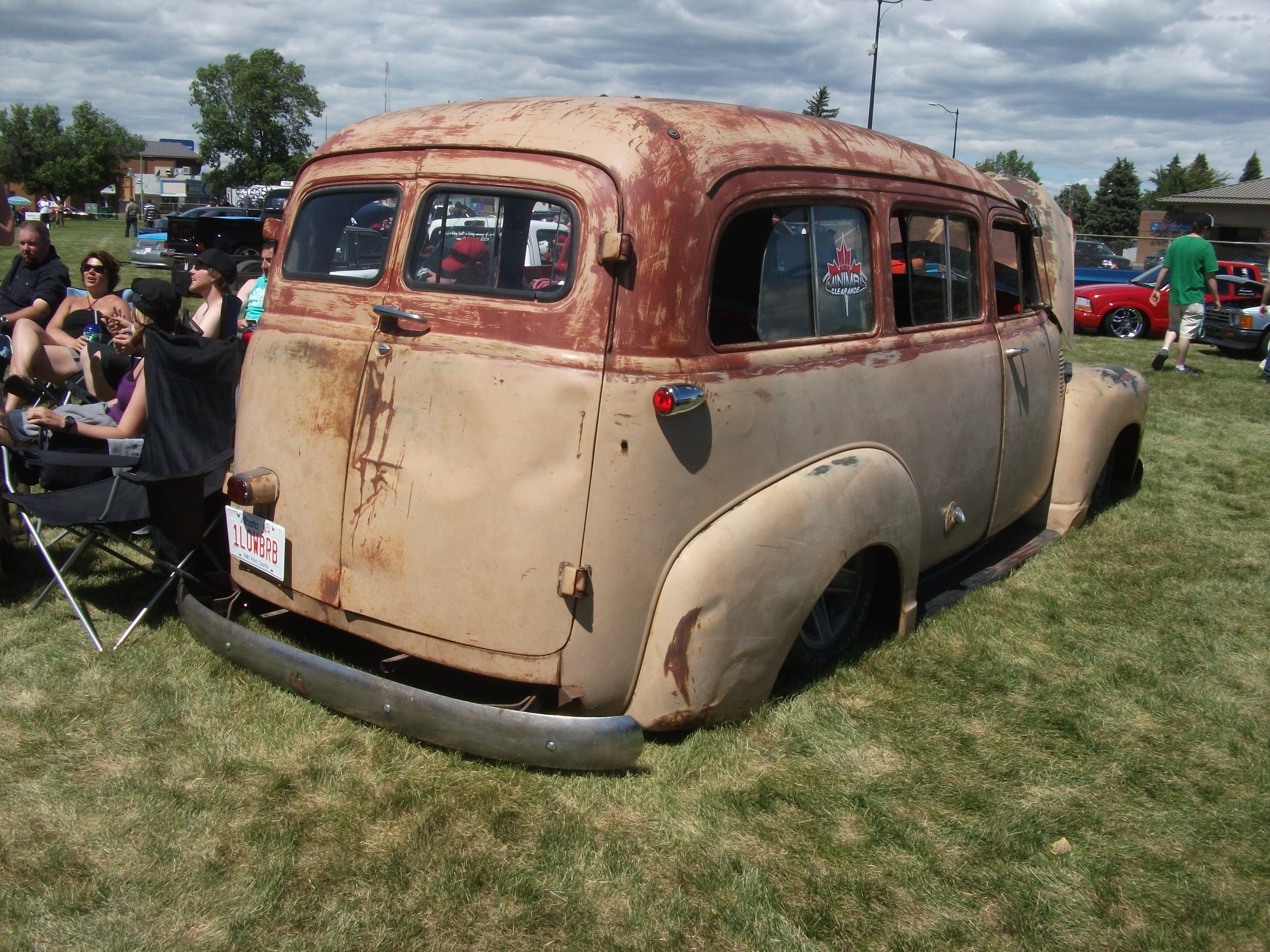 1952 Chevrolet Suburban lowered and on 3rd generation Camaro wheels.